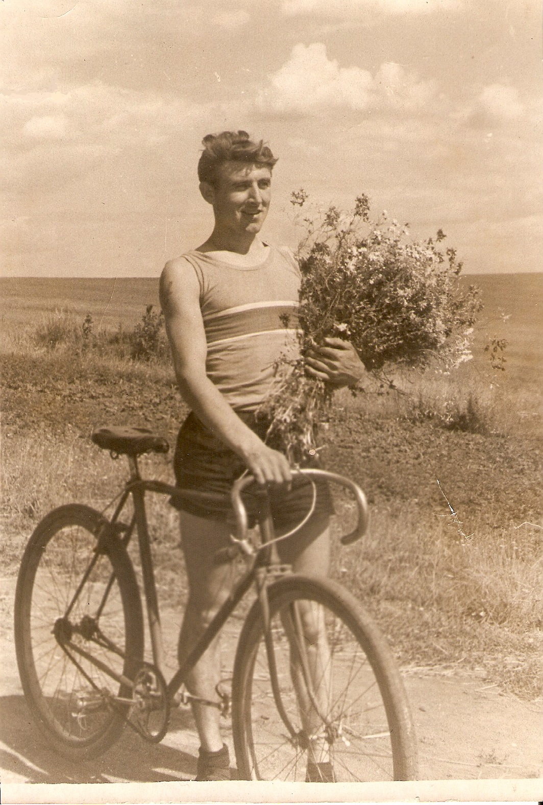 first coach to cycling in Khmelnytsky